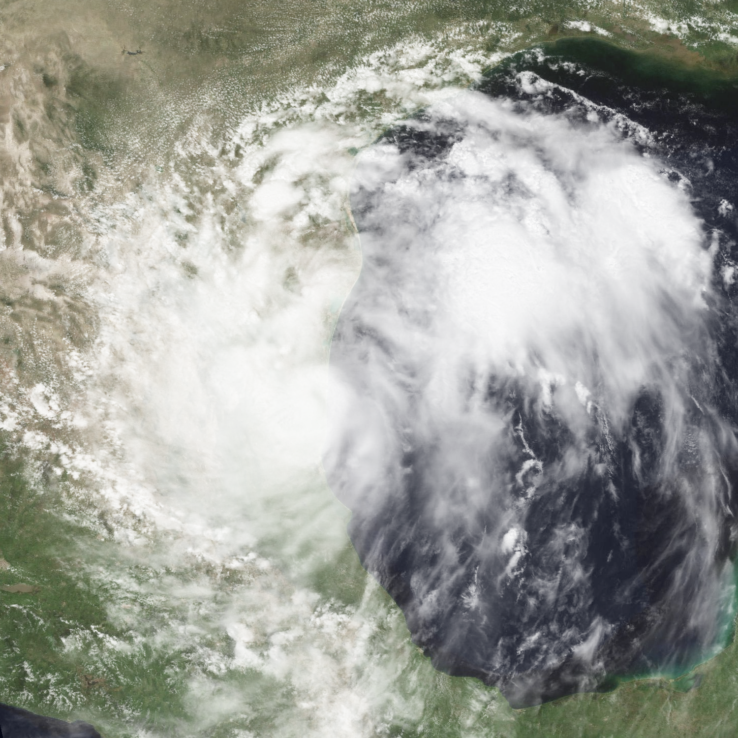 Tropical Storm Gabrielle near landfall in Mexico on August 11, 1995